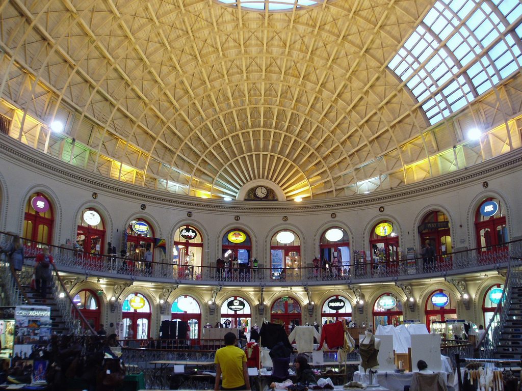 Leeds Corn Exchange, Interior